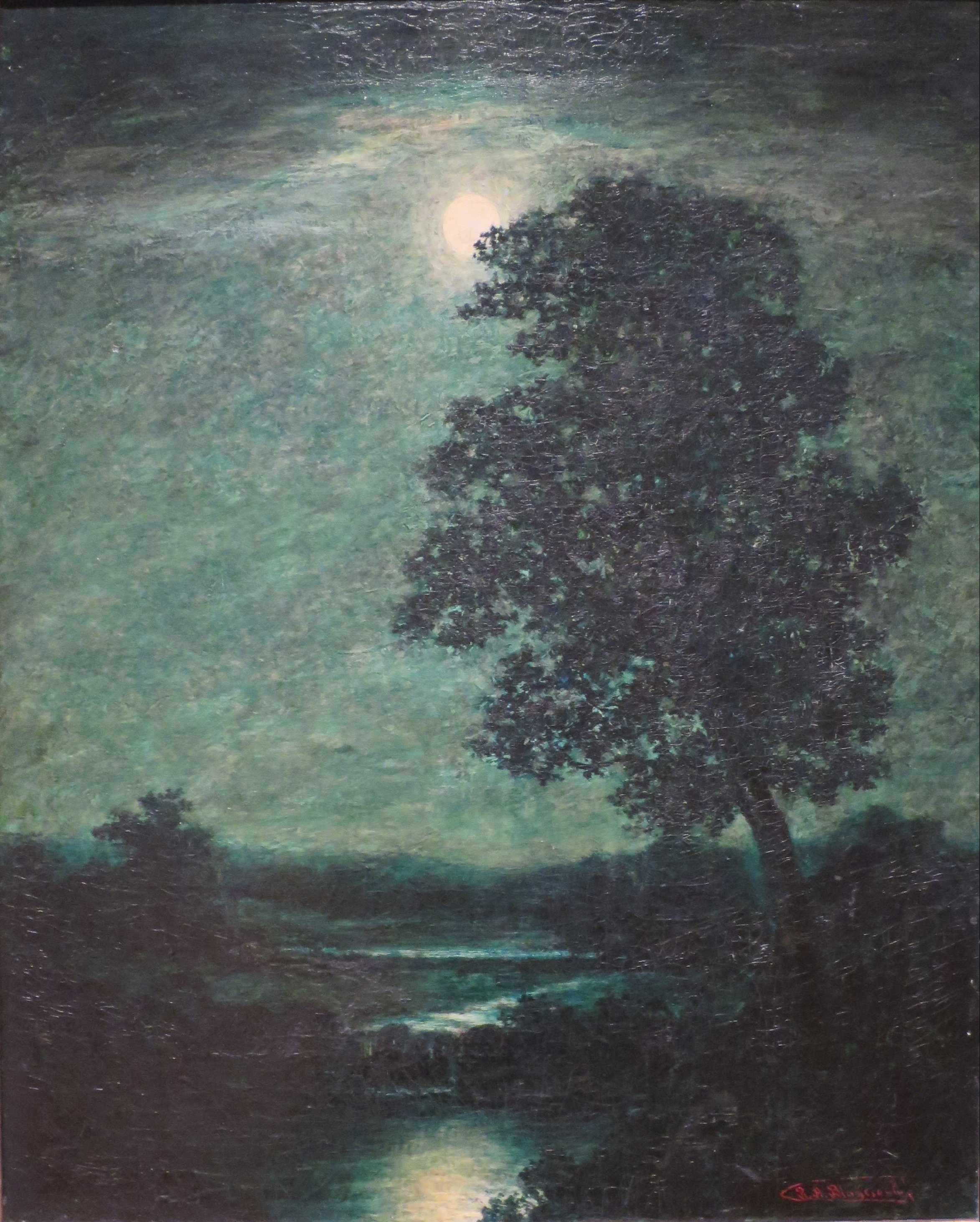 Ralph Albert Blakelock - Moonlight, oil on canvas, c. 1883-1889, High Museum of Art